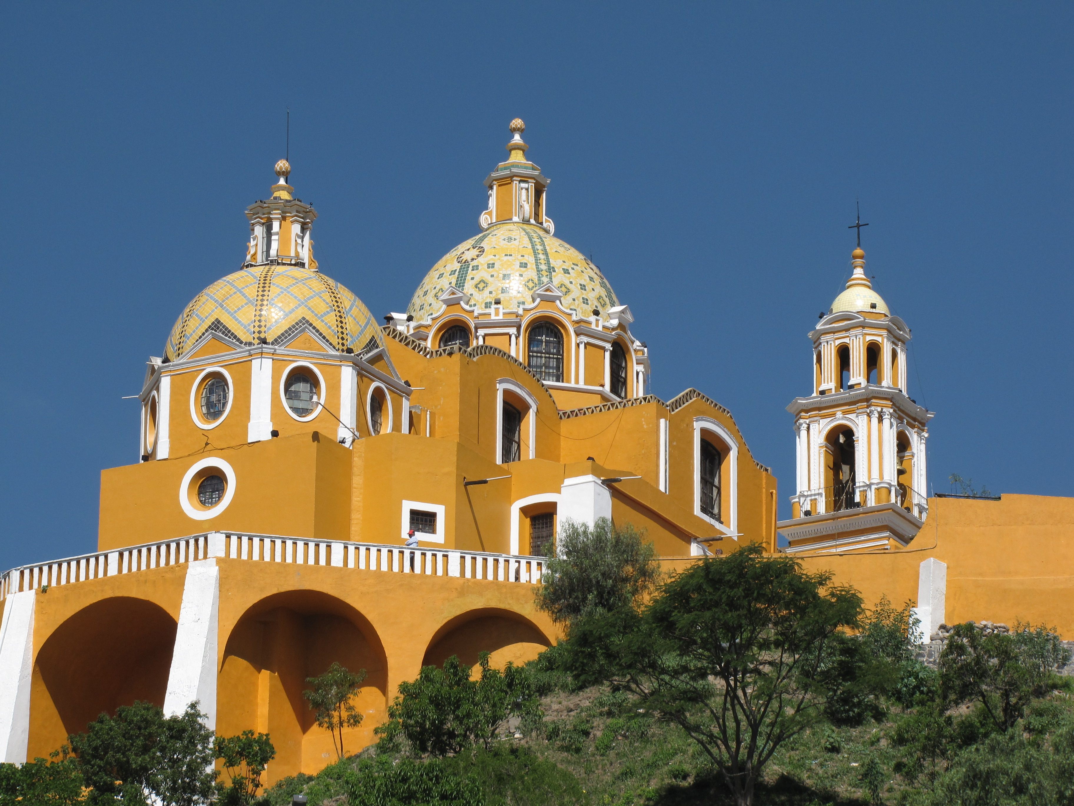 Church of Nuestra Señora de los Remedios, Cholula, Puebla, Mexico: back façade as seen from beneath the pyramid of Cholula, on which it stands.